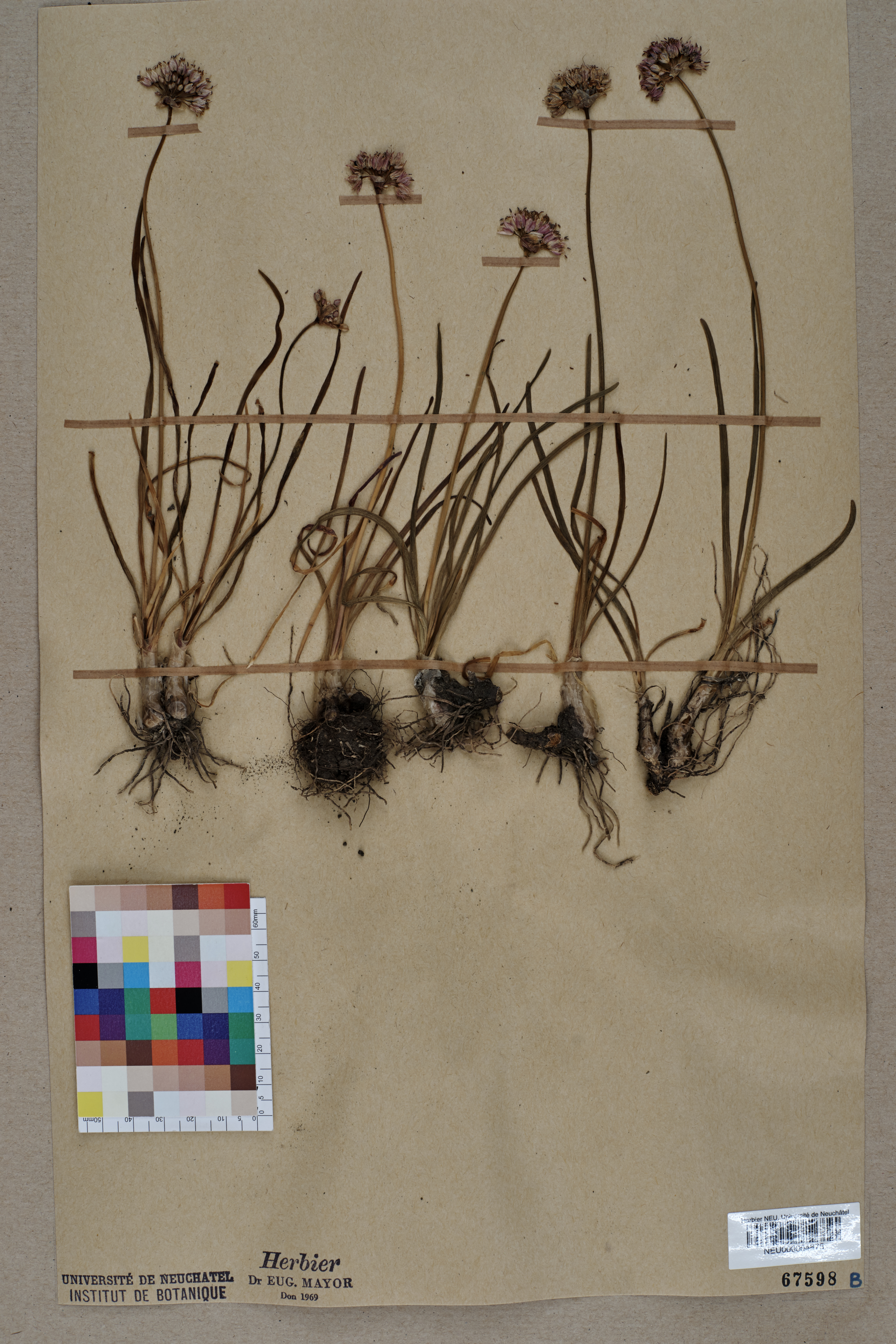 Dried pressed specimen of Allium lineare